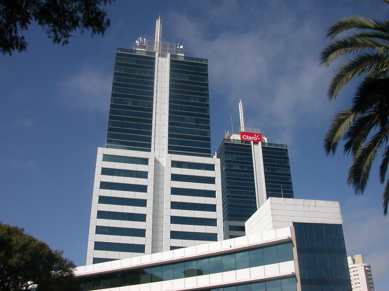 Tiwns Towers of World Trade Center in Montevideo